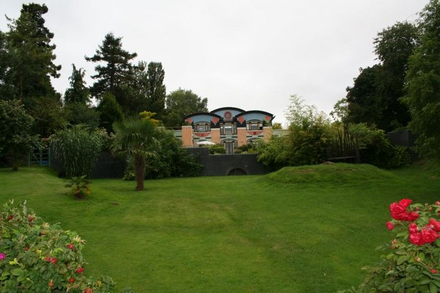 The Egyptian house The Egyptian house showing more of the riverside garden.